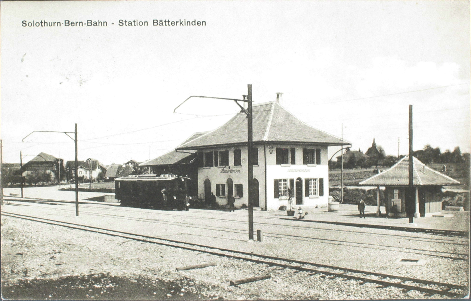 Postcard depicting a rail car of the Electric Narrow-gauge Railway Solothurn-Bern at Bätterkinden station. The postmark dates from 7 December 1921.